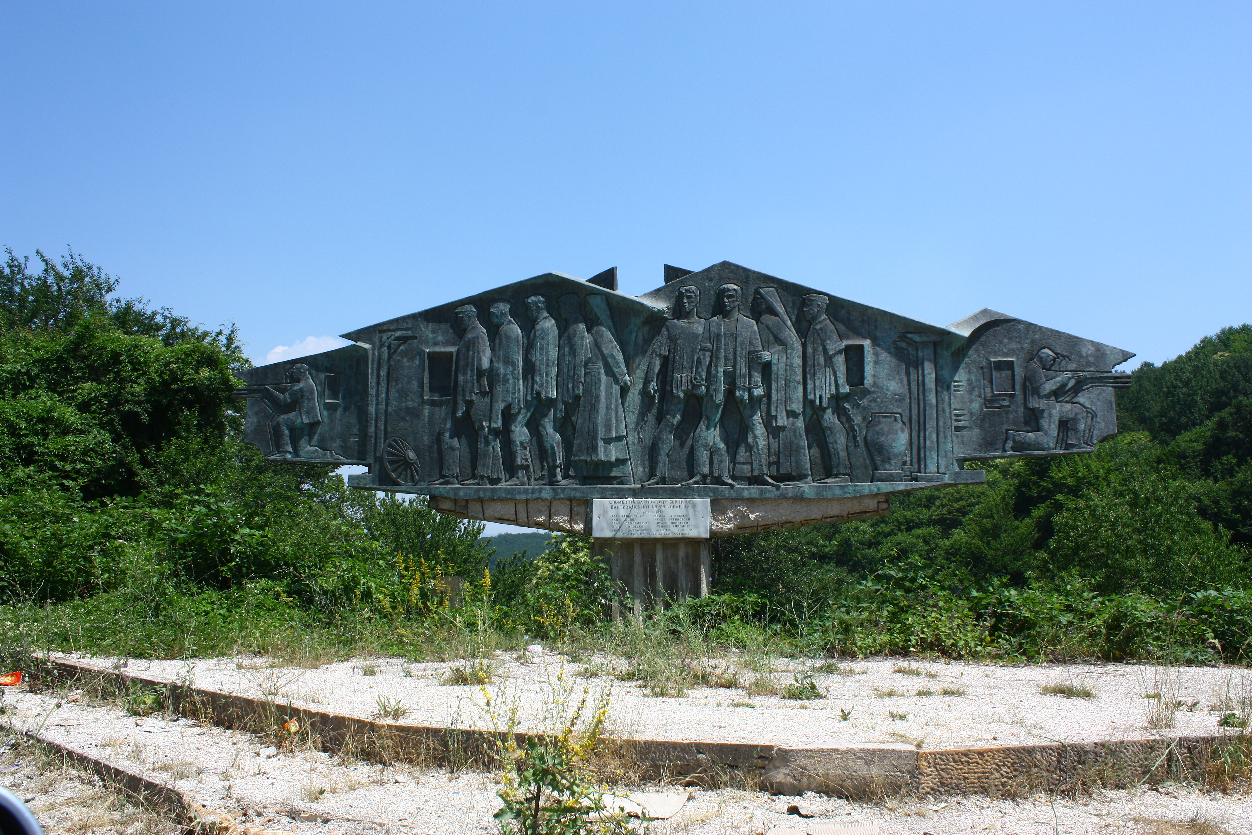 Novo Selo between Gostivar and Mavrovo, Macedonia